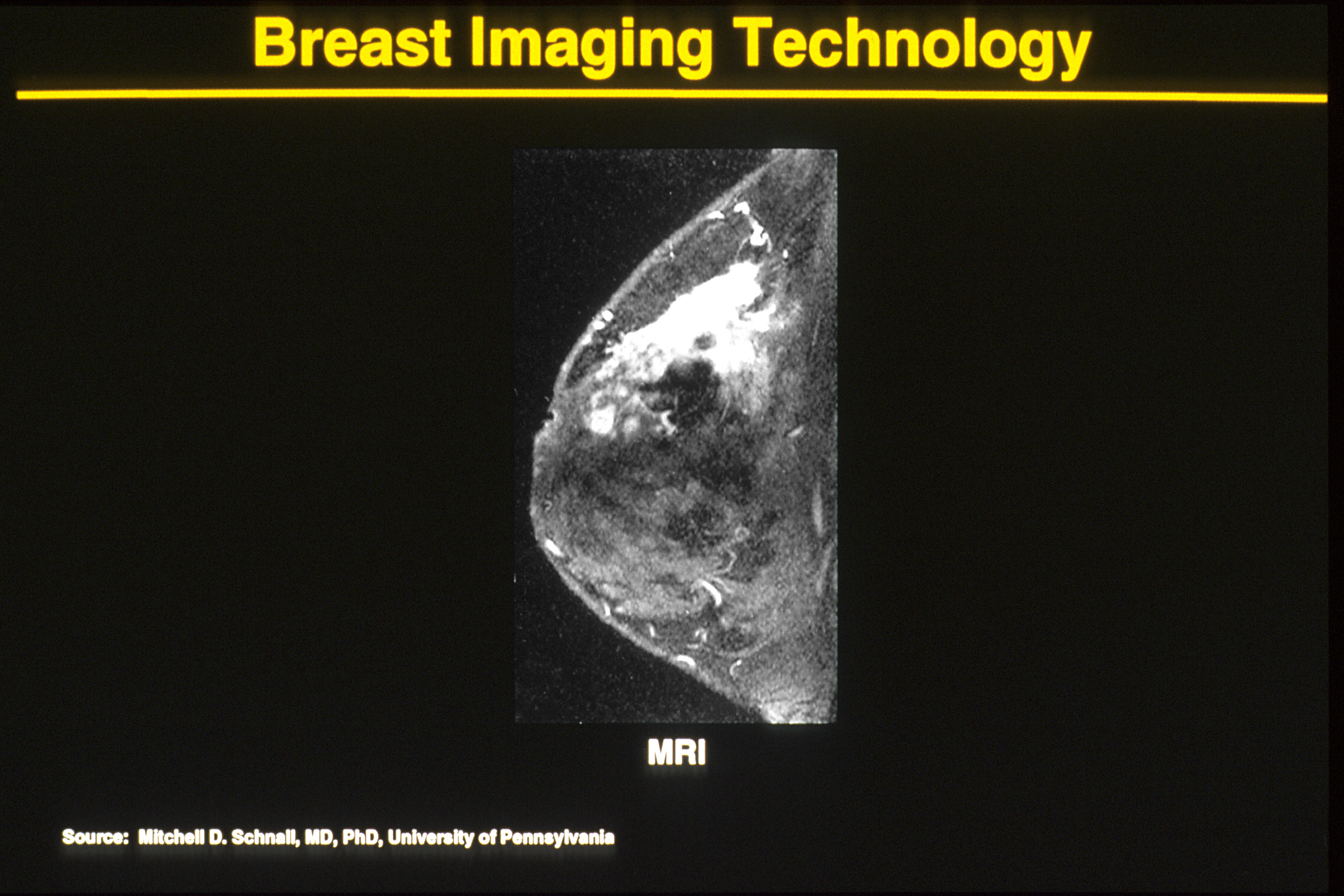 Title MRI of Breast Cancer Description Magnetic resonance image (MRI) of individual breast, demonstrating marked enhancement (bright area) which was confirmed to be cancer. Topics/Categories Anatomy -- Breast Cancer Types -- Breast Cancer Test or Procedure -- Imaging Procedures Type Color, Photo Source National Cancer Institute